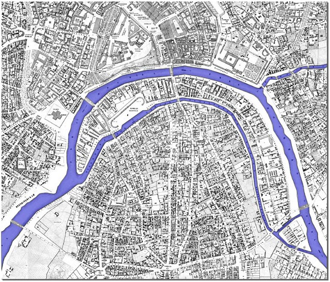 River Moskva, downtown Moscow, 1852 map